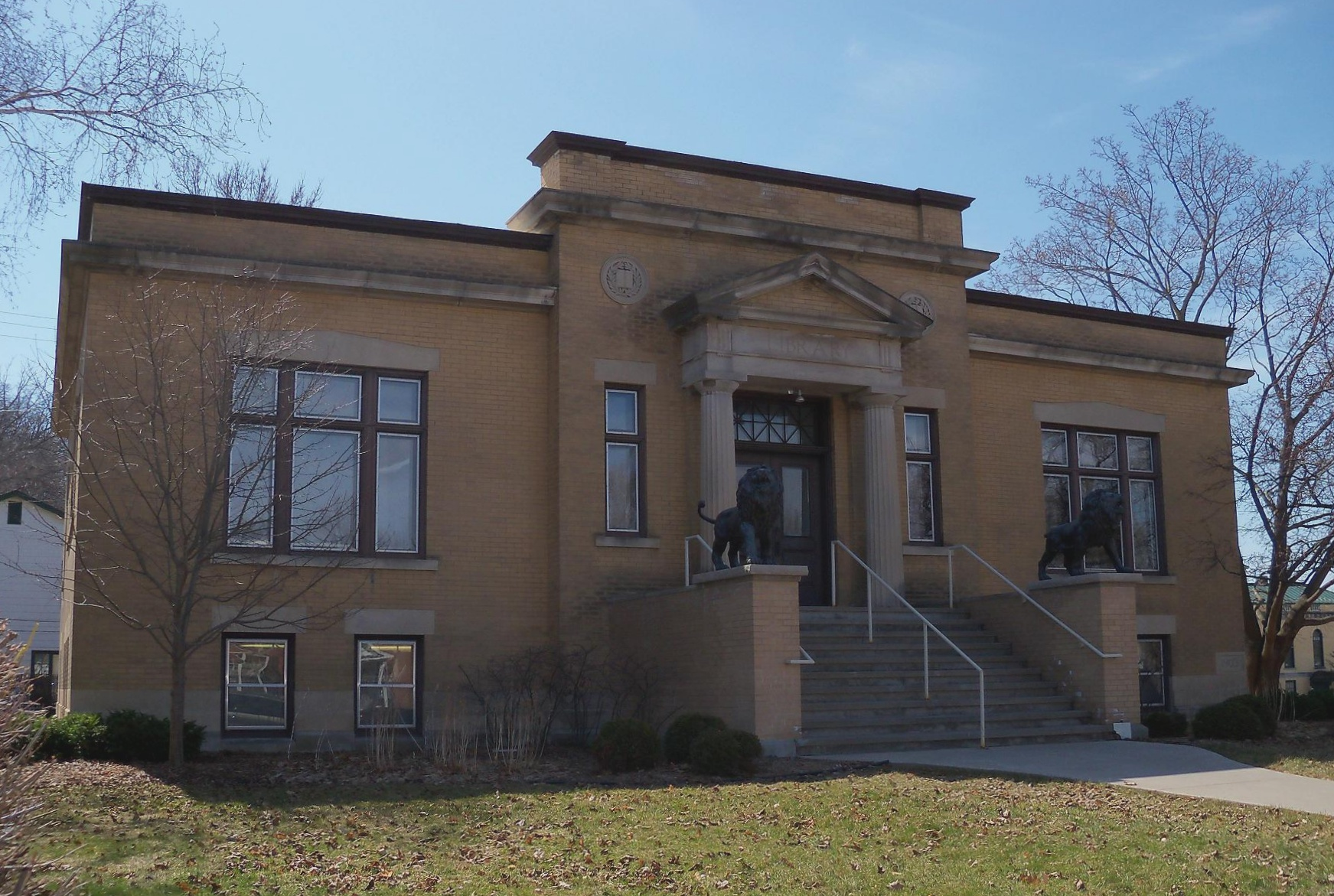 Public Library building in Hudson, Wisconsin, USA. It appears that the current library has moved and that the building now is home to offices.